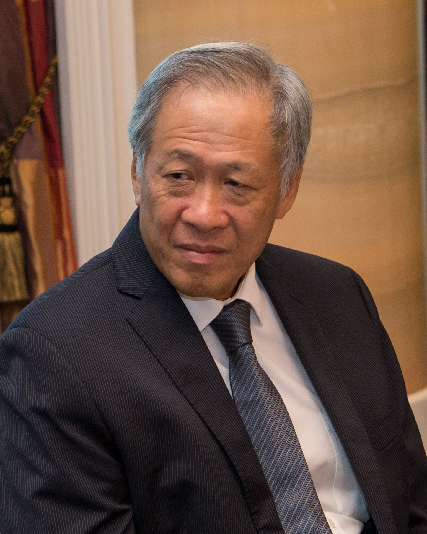 Secretary of Defense James Mattis meets with Singapore’s Minister of Defence Ng Eng Hen during the International Institute for Strategic Studies 16th Asia Security Summit in Singapore on June 3, 2017.